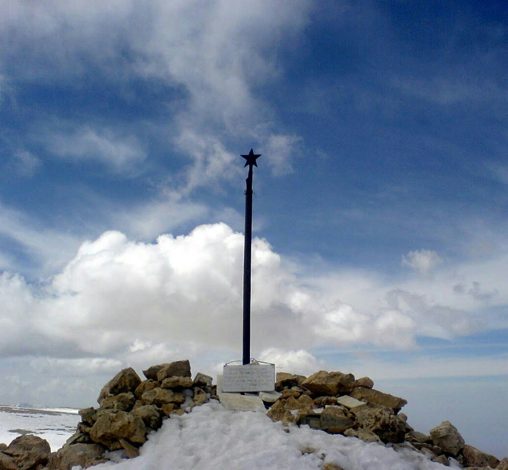 Sakhdag. On the peak